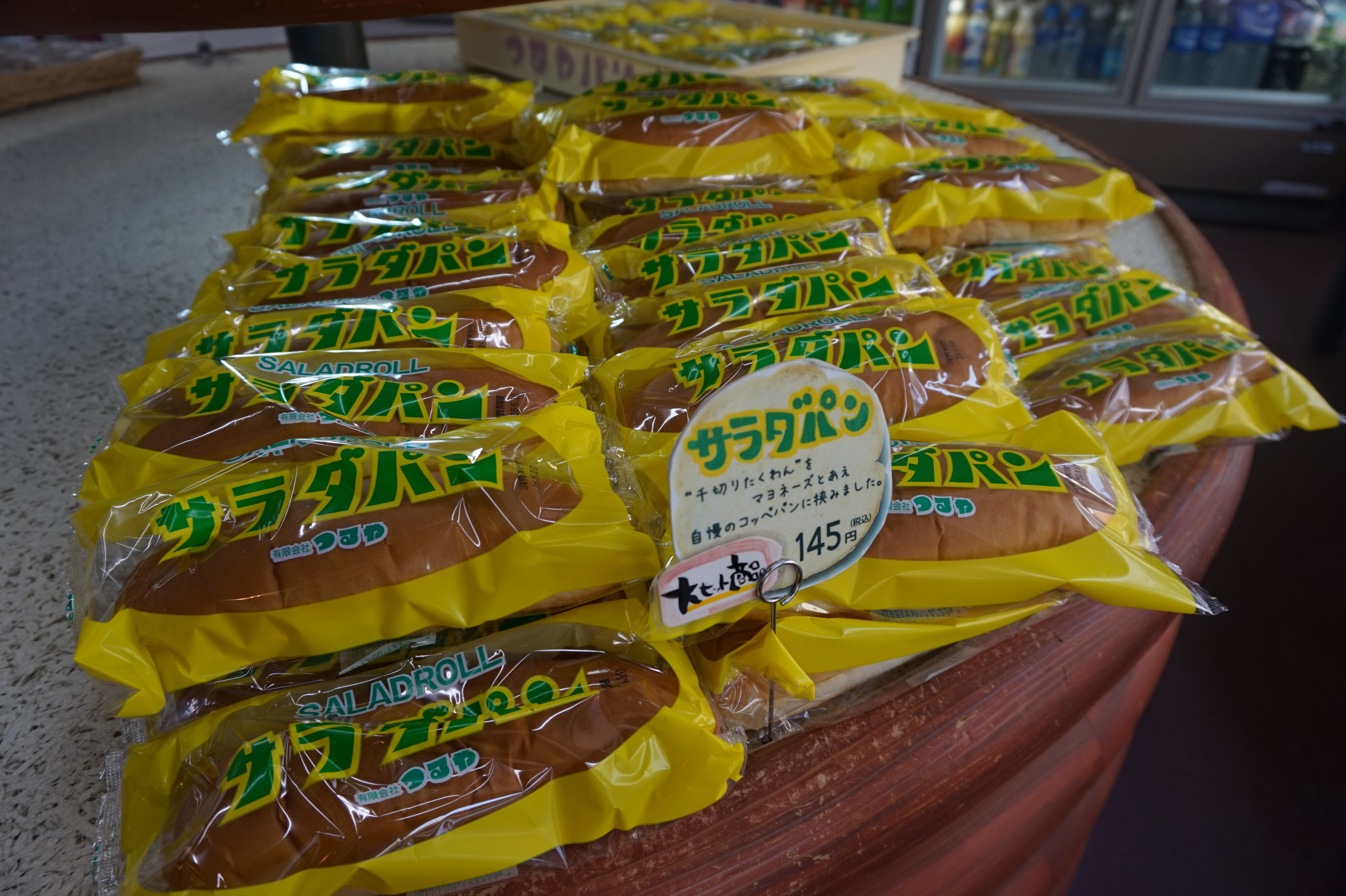 A Sarada-pan of "Tsuruya" in Kinomoto, Shiga